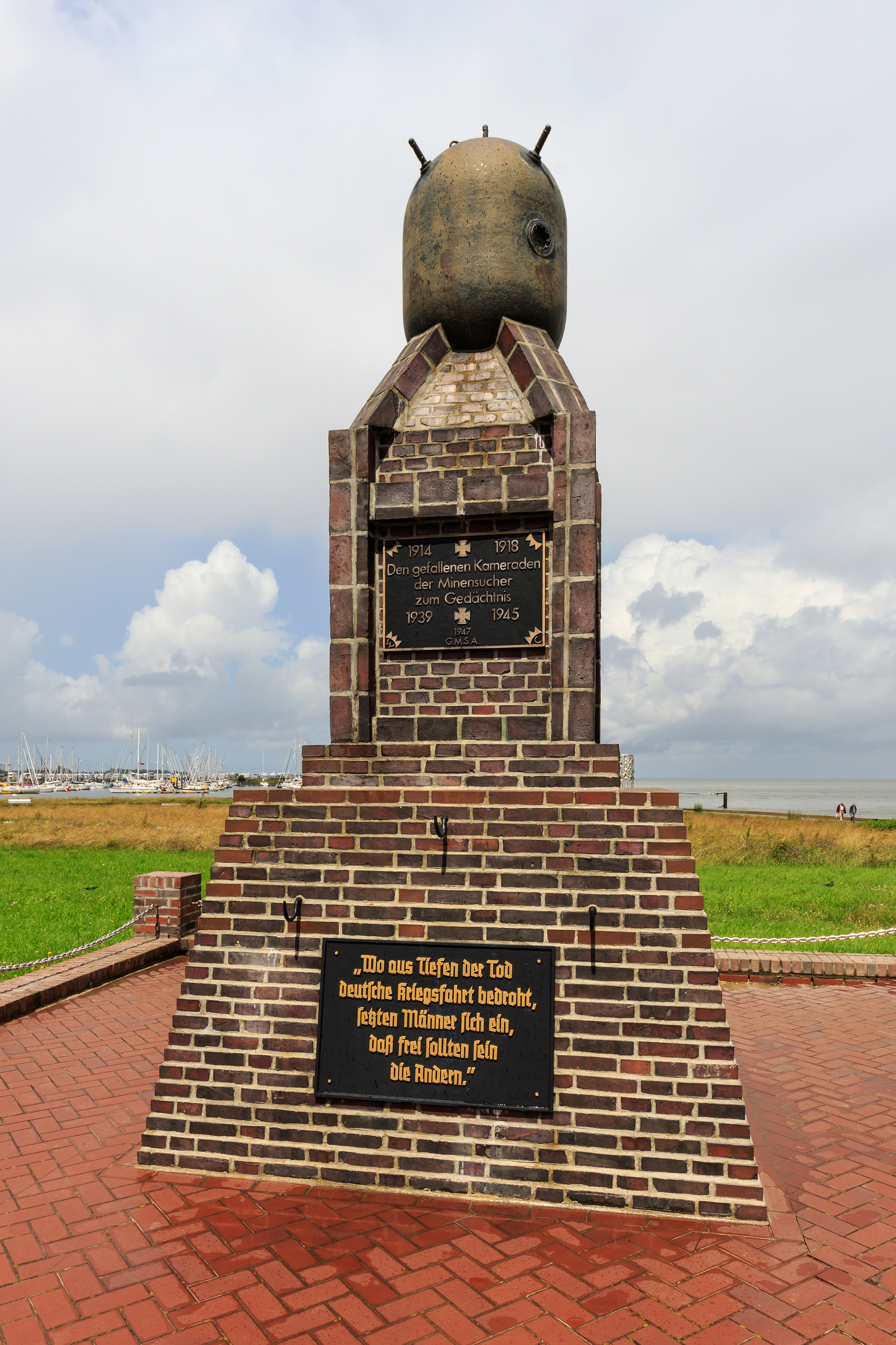 Sea port and its surroundings in Cuxhaven, Germany